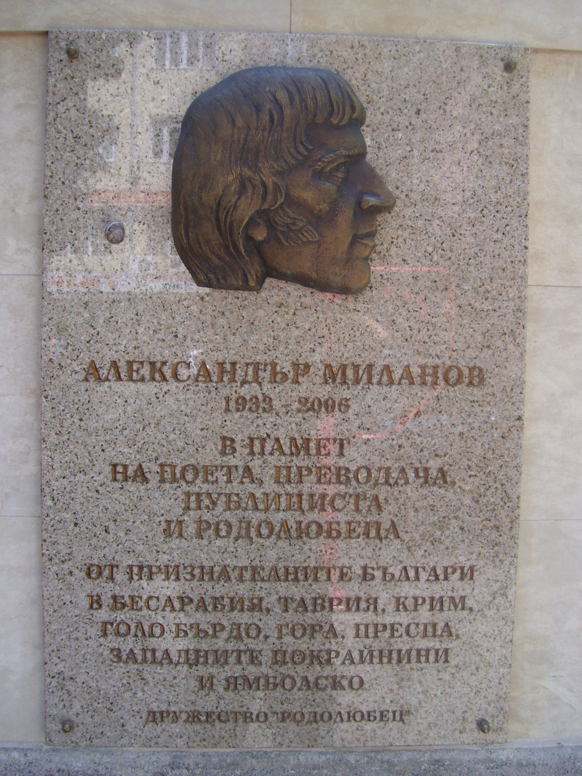 Memorial plaque in Sofia, Bulgaria, on the building where Alexander Milanov lived.